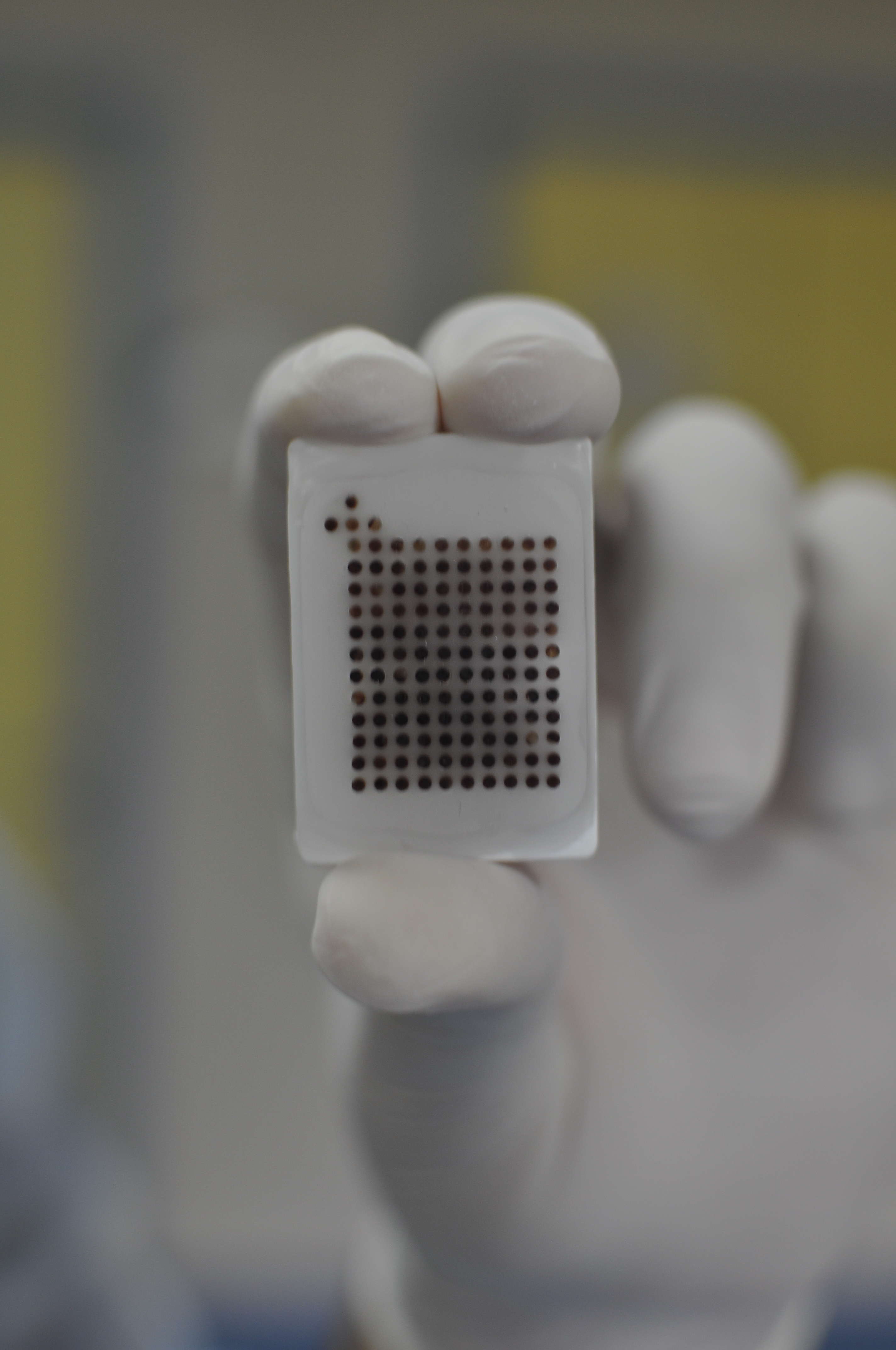 A 12X10 grid tissue microarray, constructed from 120 different donor blocks.